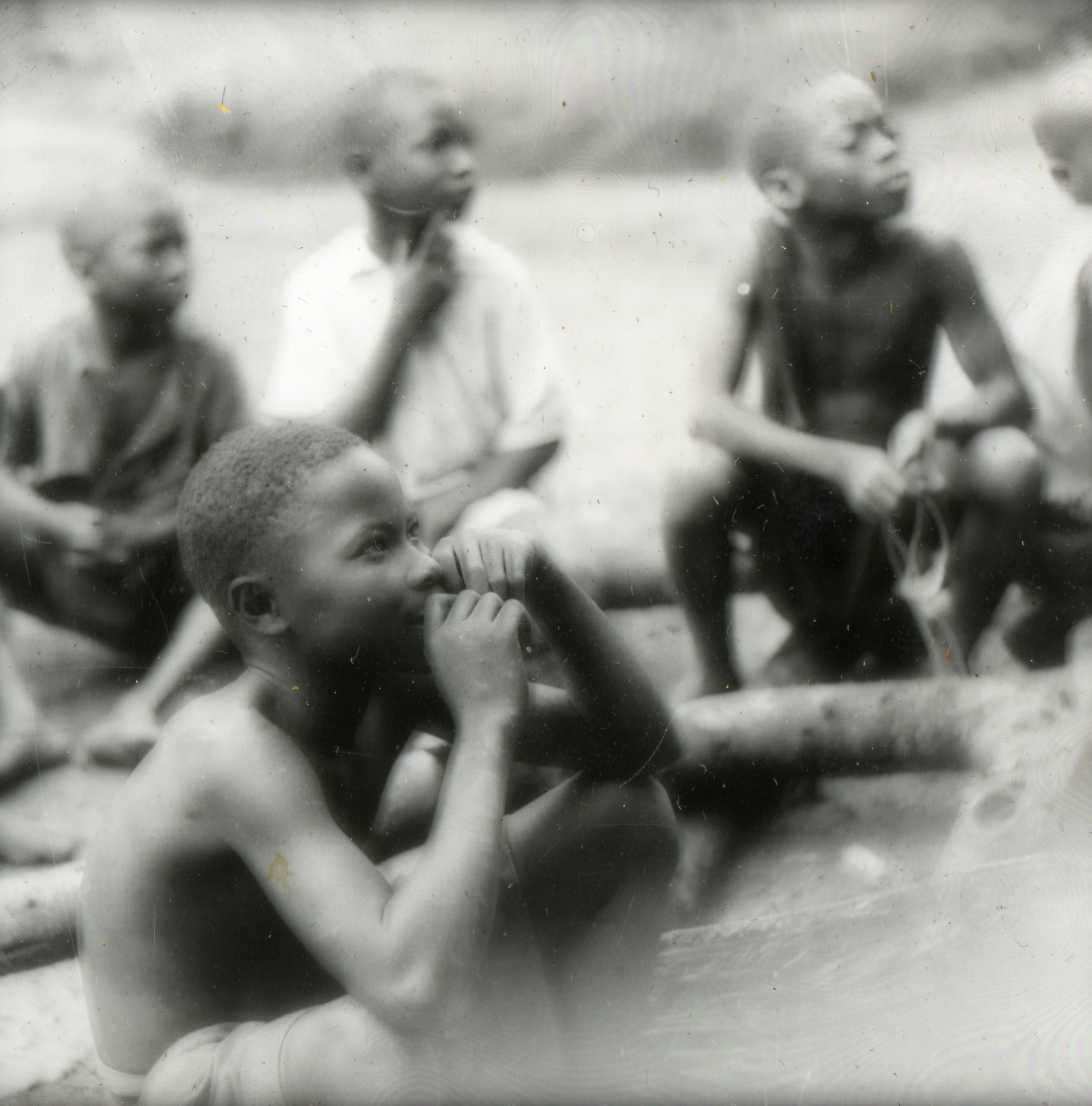 Four boys looking/listening. Sierra Leone, 1935. Collection Hofstra. Panguma (surroundings). Photograph: Sjoerd Hofstra